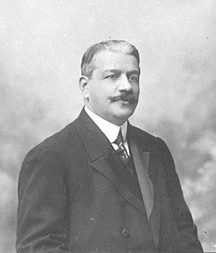 João Chagas (1863-1925), prime-minister of Portugal.